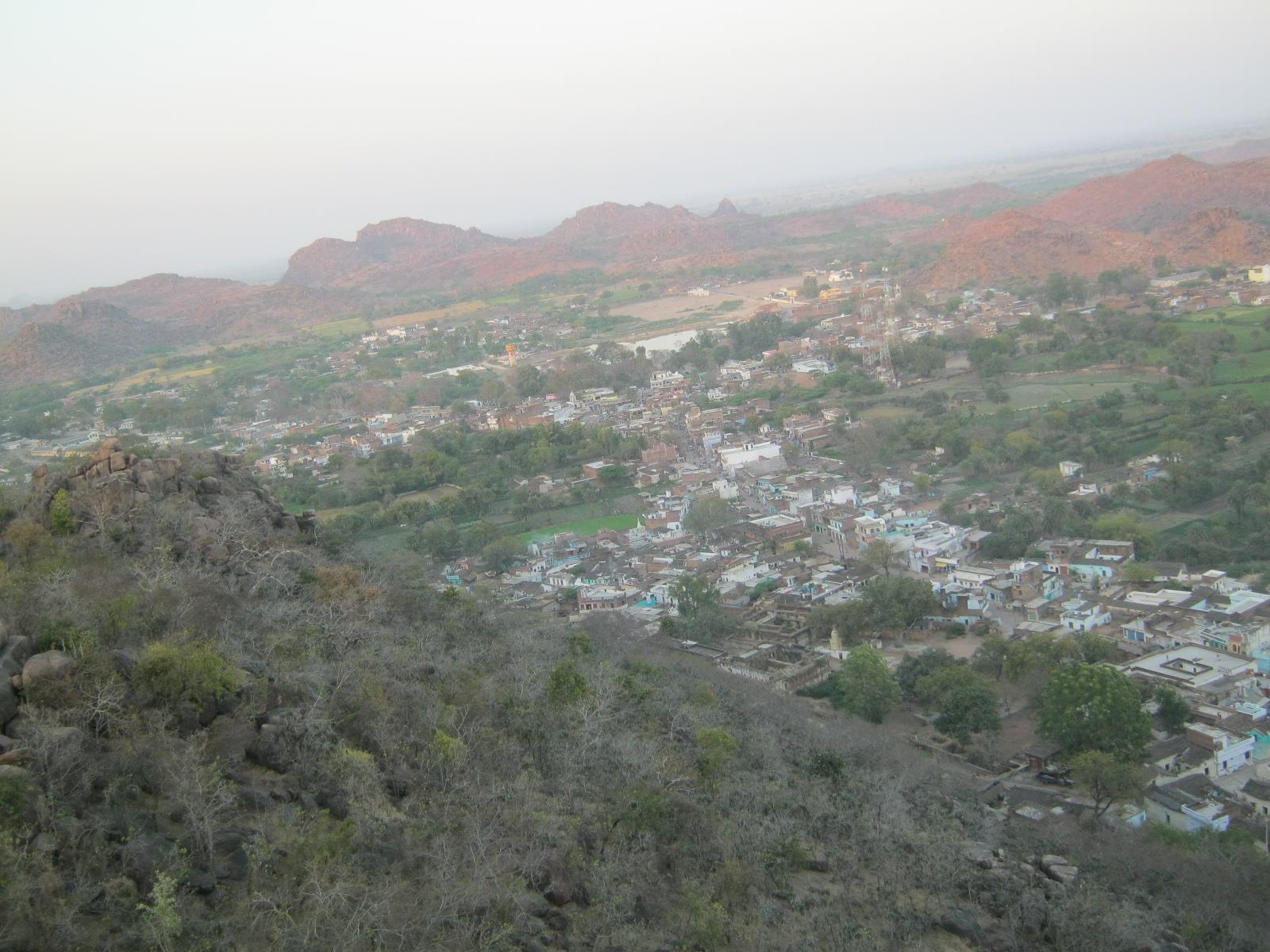 Center of Lavkushnagar town